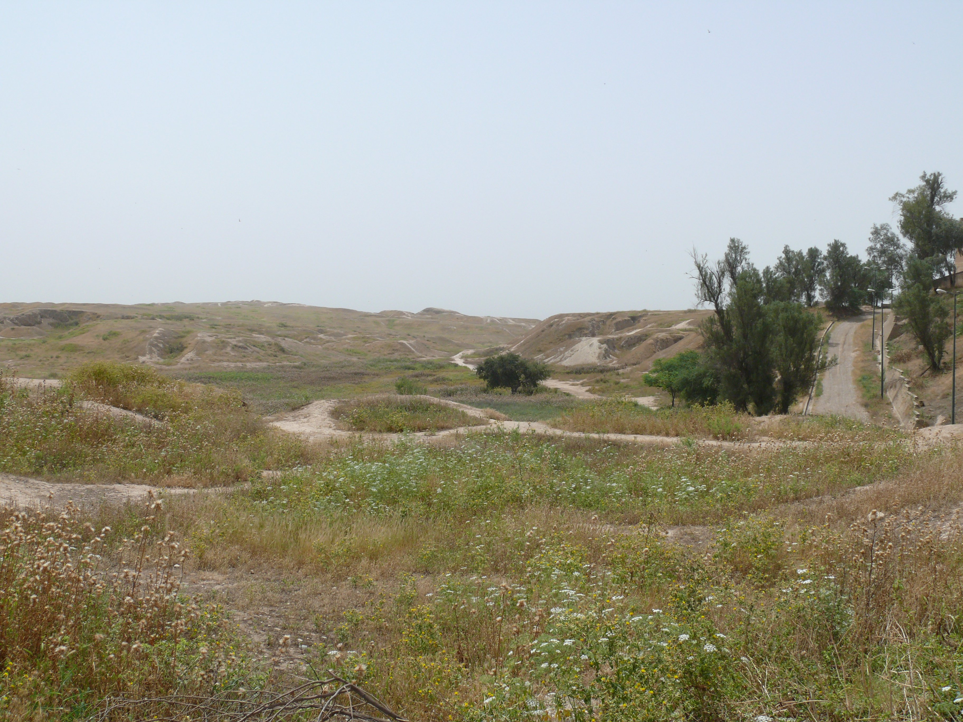 Tepe of the Royal city (left) and of the Acropolis (right) seen from the Tepe of the Apadana. Susa, Iran.